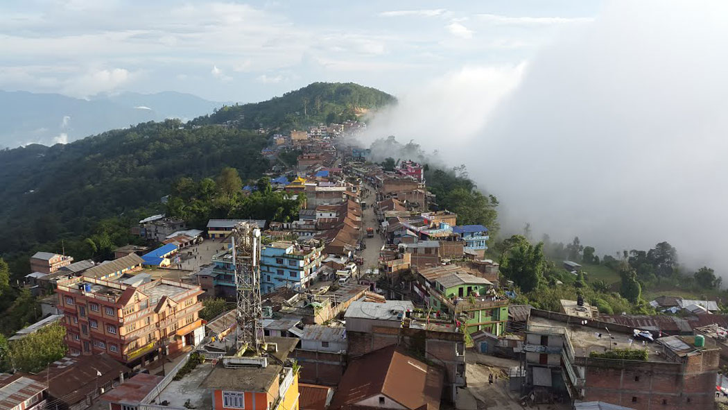 View of Hile from Hile Siran